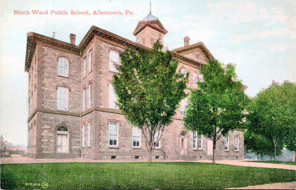 1900 photo postcard of the Herbst Elementary School, Fifth and Chew Streets. The school was named for Dr. Henry Herbst, a school board member and former mayor of Allentown. It is estimated that Dr. Herbst educated 30,000 students in the Allentown School District. The school was closed in 1977 due to declining enrollment. The school building was bought by Sacred Heart Hospital in 1978 and demolished it the next year. It was replaced by medical offices for the Hospital.)